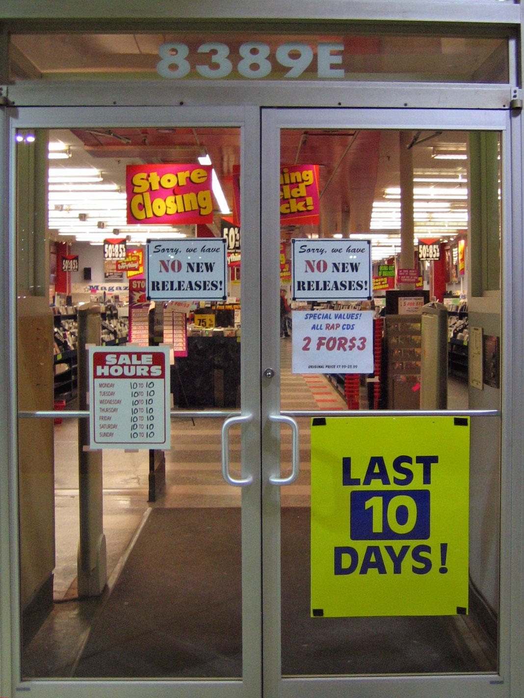 No new releases.